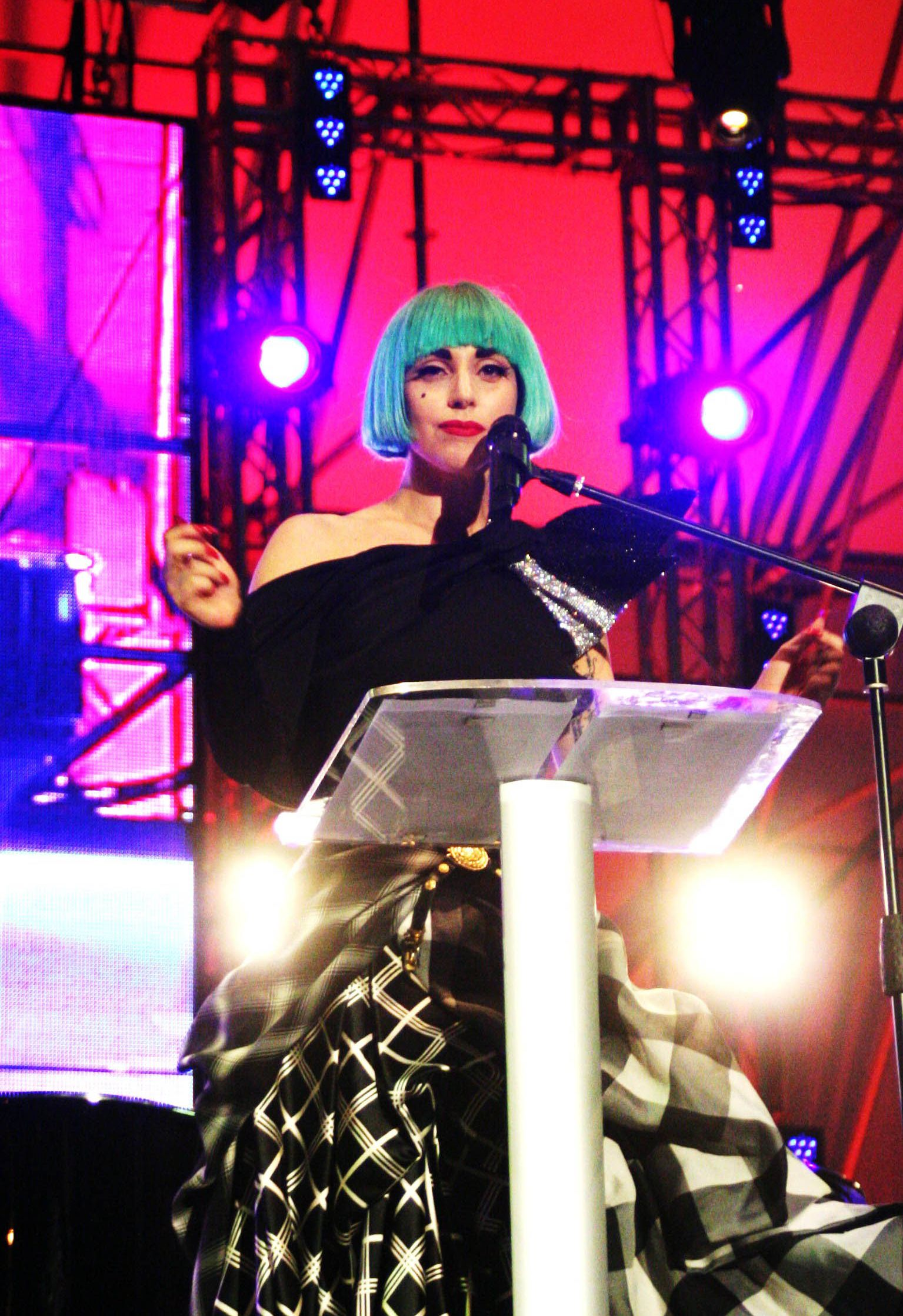 Lady Gaga giving a speech at EuroPride 2011, in Rome, italy.